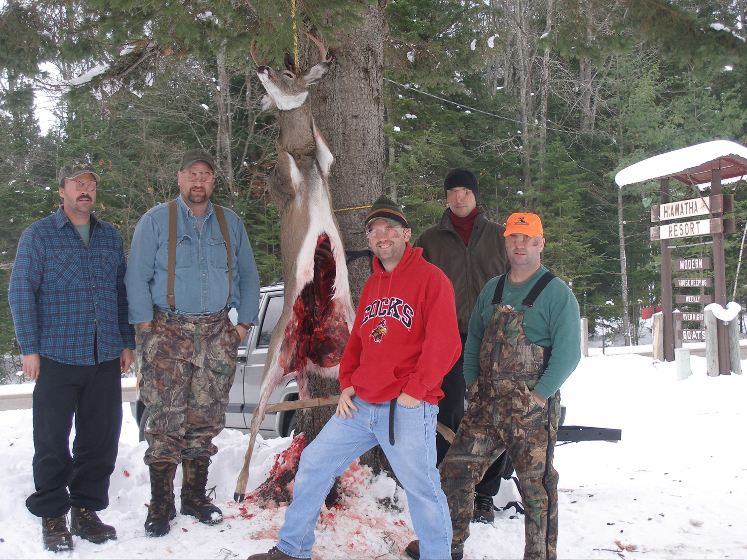 A freshly field dressed (gutted) deer is hung from a tree branch (sometimes called a "buck pole") and allow to cure.